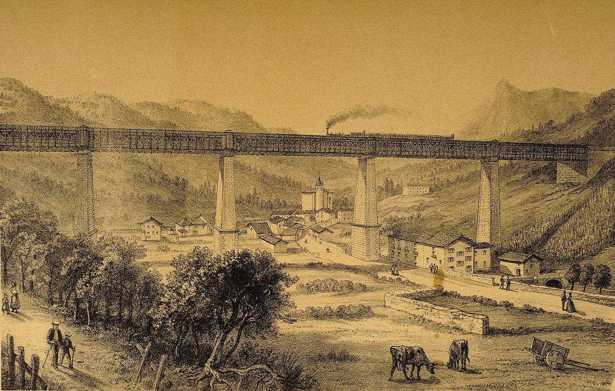 Museo_Zumalakarregi_Albumsigloxix_002431.JPG